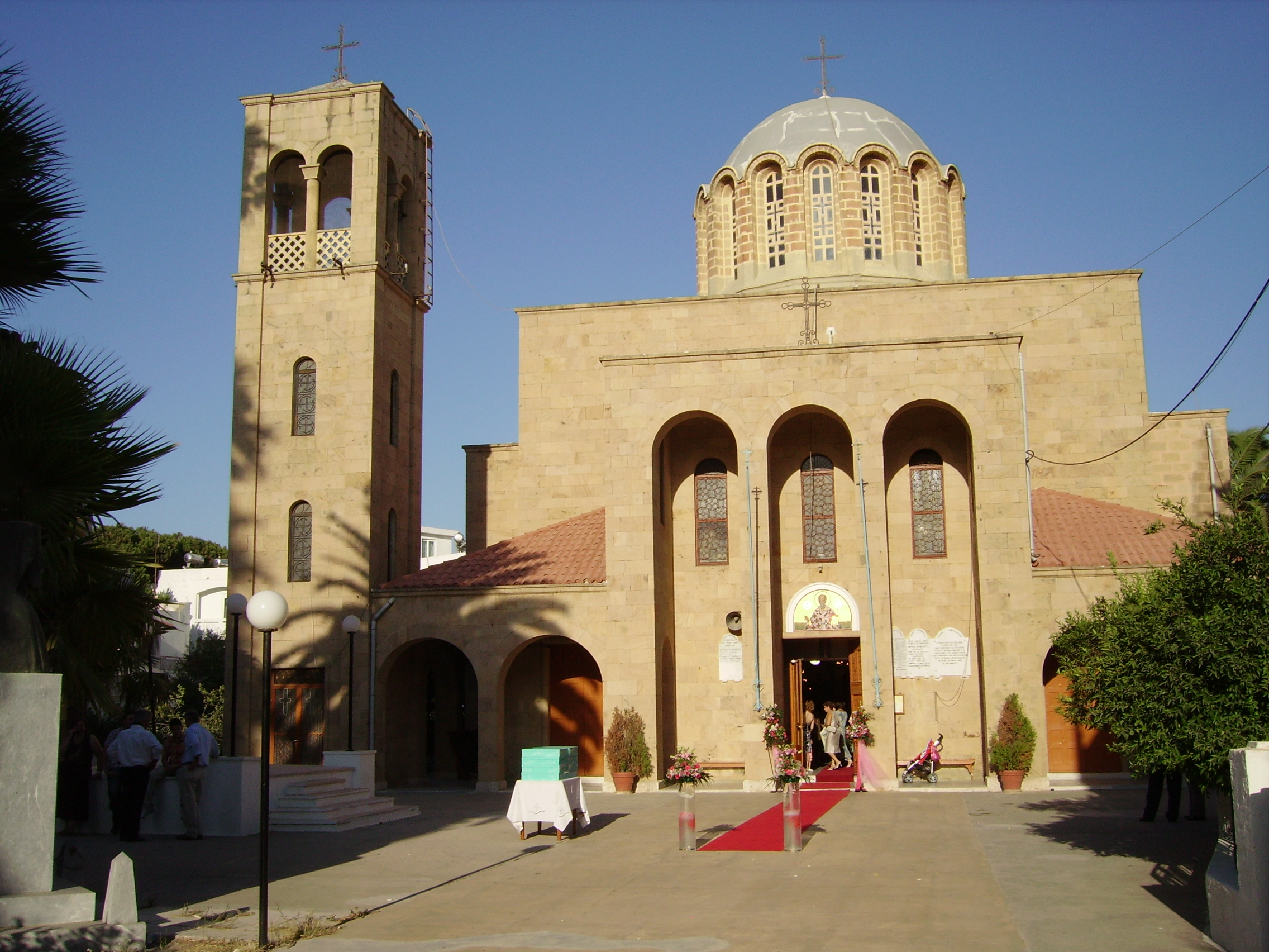 Kos_catdr.JPG